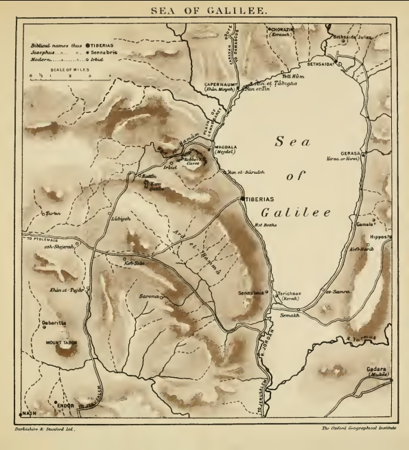 Map of sea of Galilee 1913